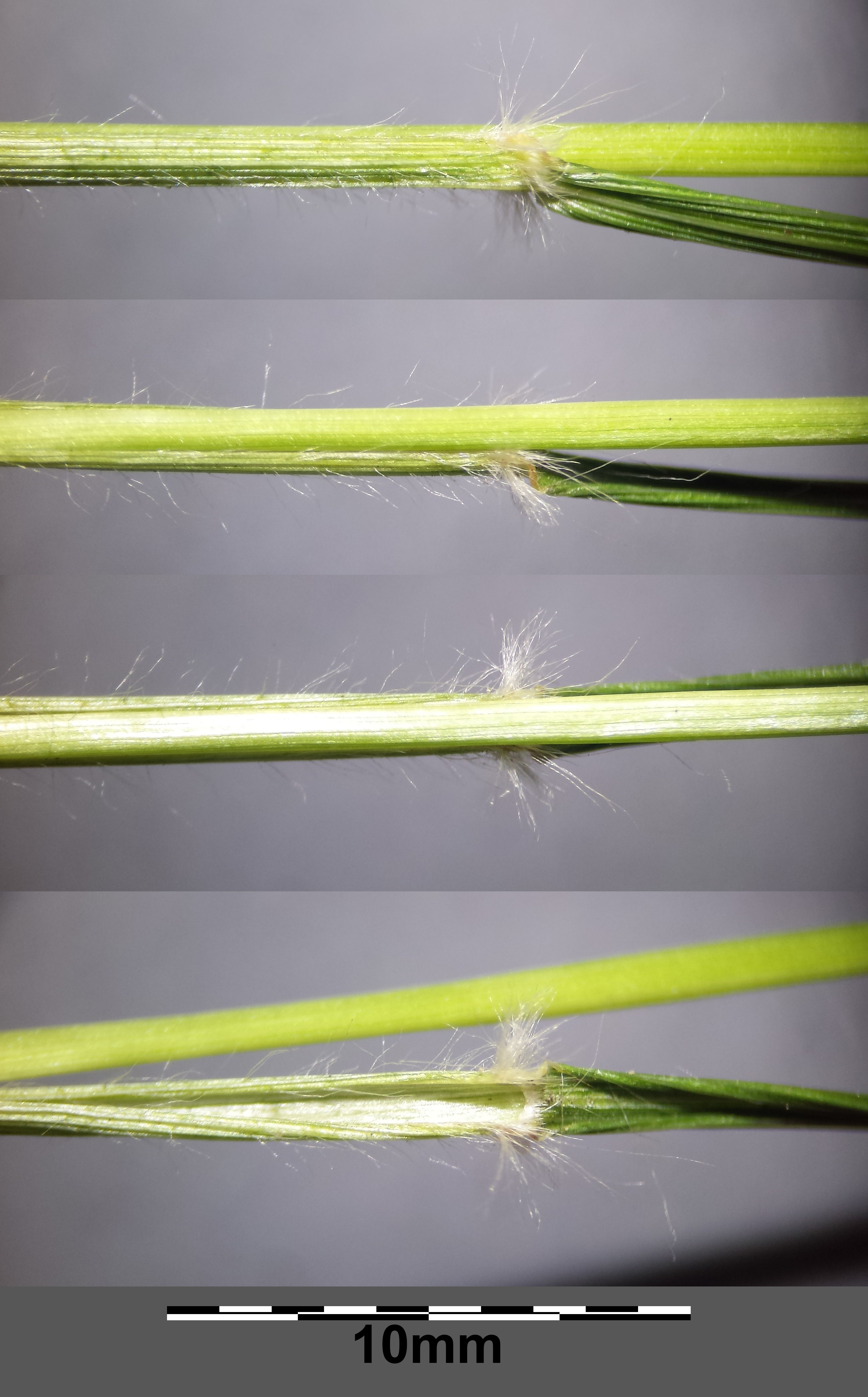 Stem with leaf sheath with scattered long hairs and ligule Taxonym: Danthonia decumbens ss Fischer et al. EfÖLS 2008 ISBN 978-3-85474-187-9 Location: near Kaltenleutgeben, district Mödling, Lower Austria - ca. 430 m a.s.l. Habitat: meadows